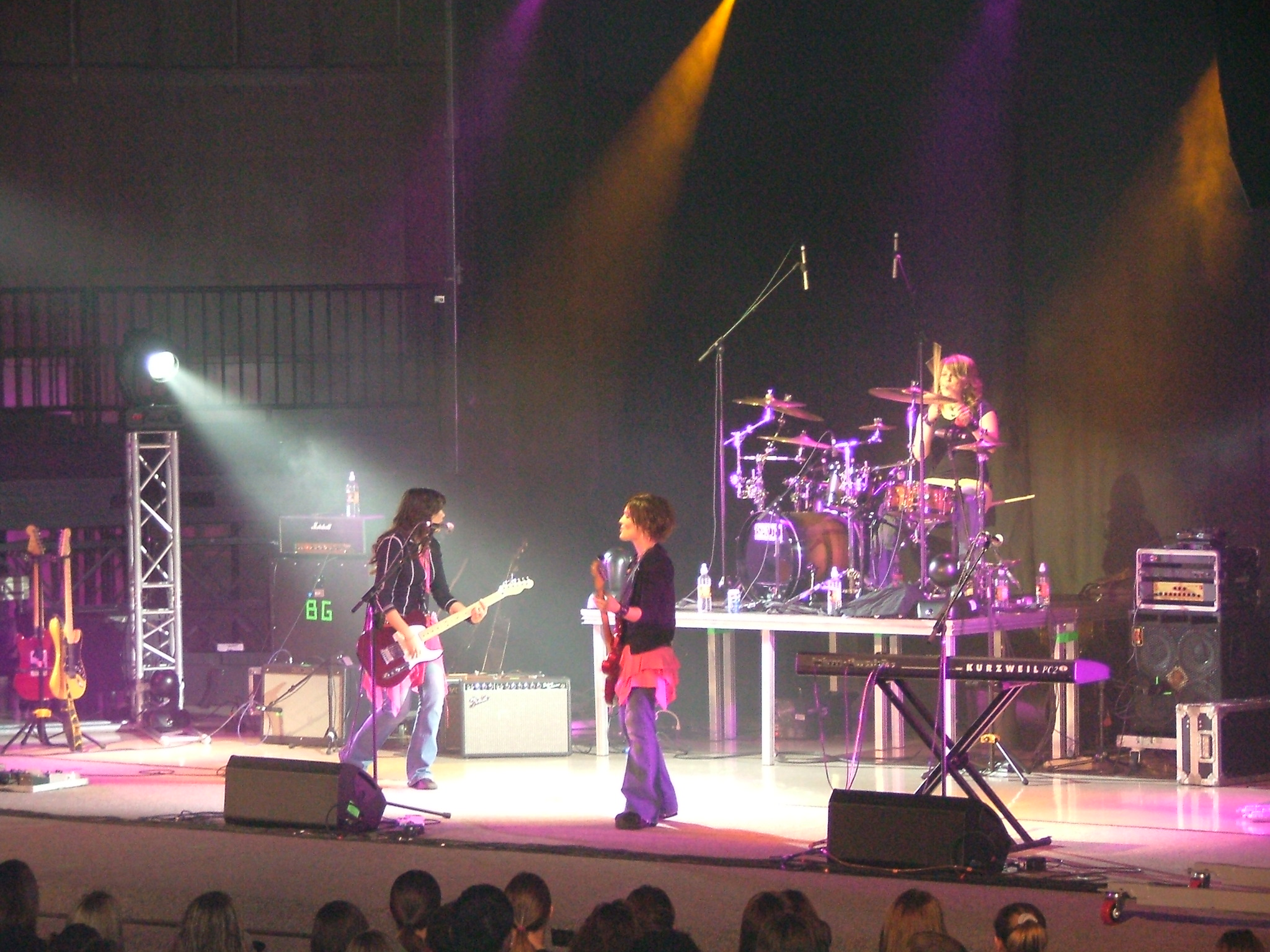 Barlow Girl playing live at Oklahoma Baptist University on October 16, 2004 while on the In the Name of Love Tour.